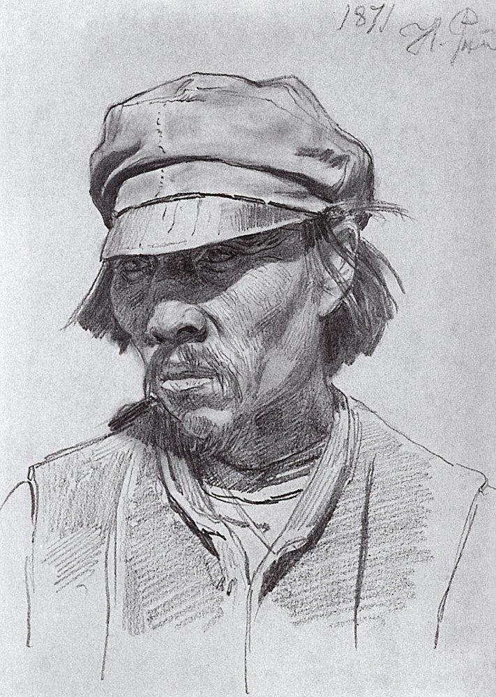 Portrait of a kalmyk. Graphite pencil on paper. 19.6 × 13.8 cm. The State Tretyakov Gallery, Moscow.